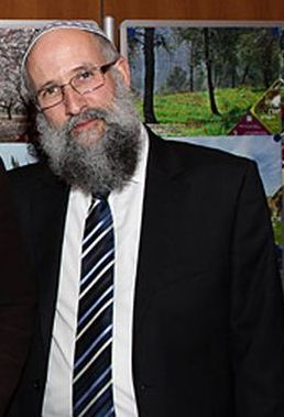 Yechiel Leo Brukner, Rabbi from Switzerland, works in Germany (mainly Cologne and Munich)